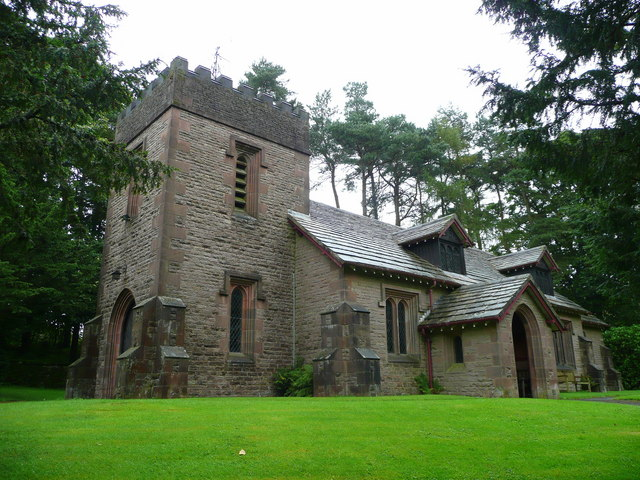 St Saviour's parish church, Wildboarclough, Cheshire, seen from the southwest